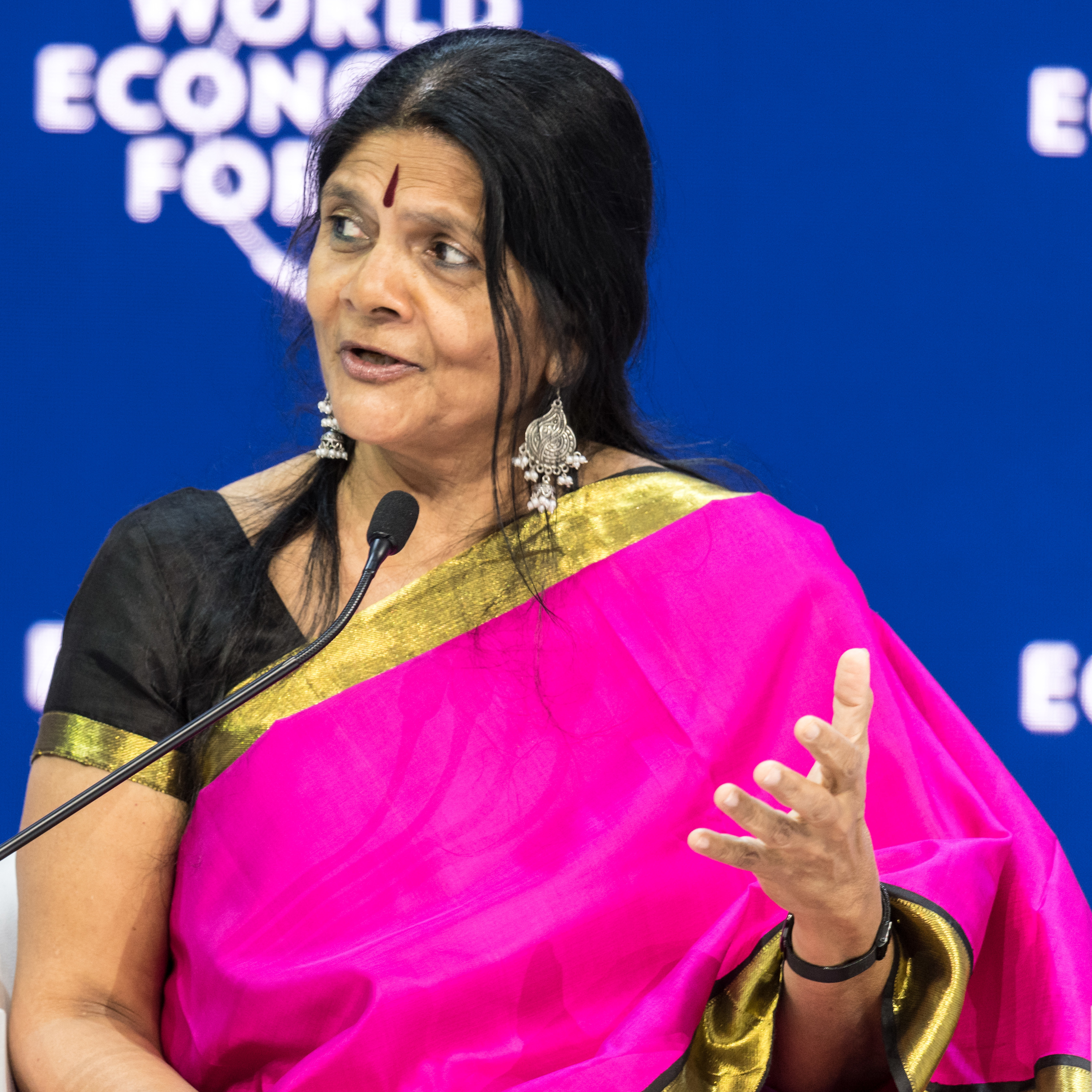 Chetna Sinha, Meeting Co-Chair, Schwab Foundation Social Entrepreneur, Founder and Chair, Mann Deshi Foundation, India is speaking at the Annual Meeting 2018 of the World Economic Forum in Davos, January 23, 2018. Copyright by World Economic Forum / Mattias Nutt